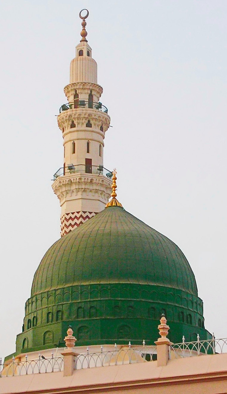 Green Dome of Al-Masjed Al-Nabawi (mosque), Saudi Arabia.